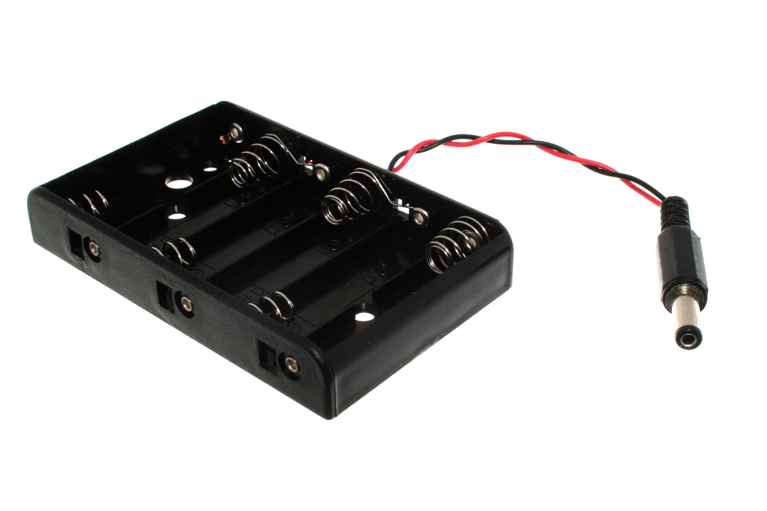 6 x AA Battery holder with a 2.1mm DC plug attached.